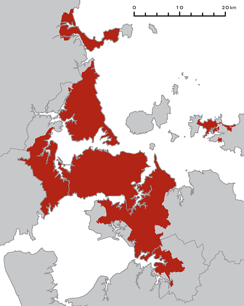 A map of the Auckland region with the Auckland urban area highlighted in red. The existing region and district boundaries are shown with grey lines; these are no longer current. North is at the top. The coastline shown around Puketutu Island, east of Mangere, is inaccurate. It shows all the area between the island and the mainland (formerly occupied by sewage treatment ponds) as land.